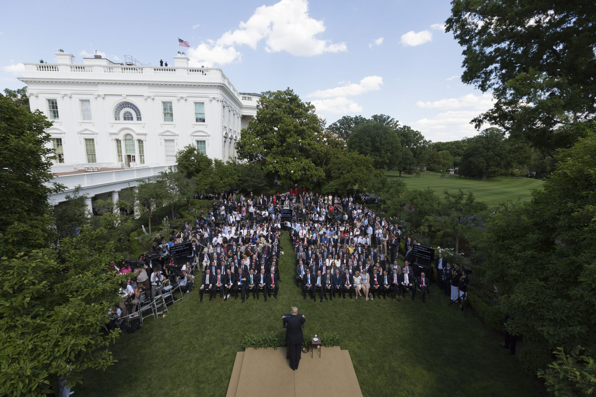 Donald Trump delivering a speech in the Rose Garden of the White House, on 1 June 2017.